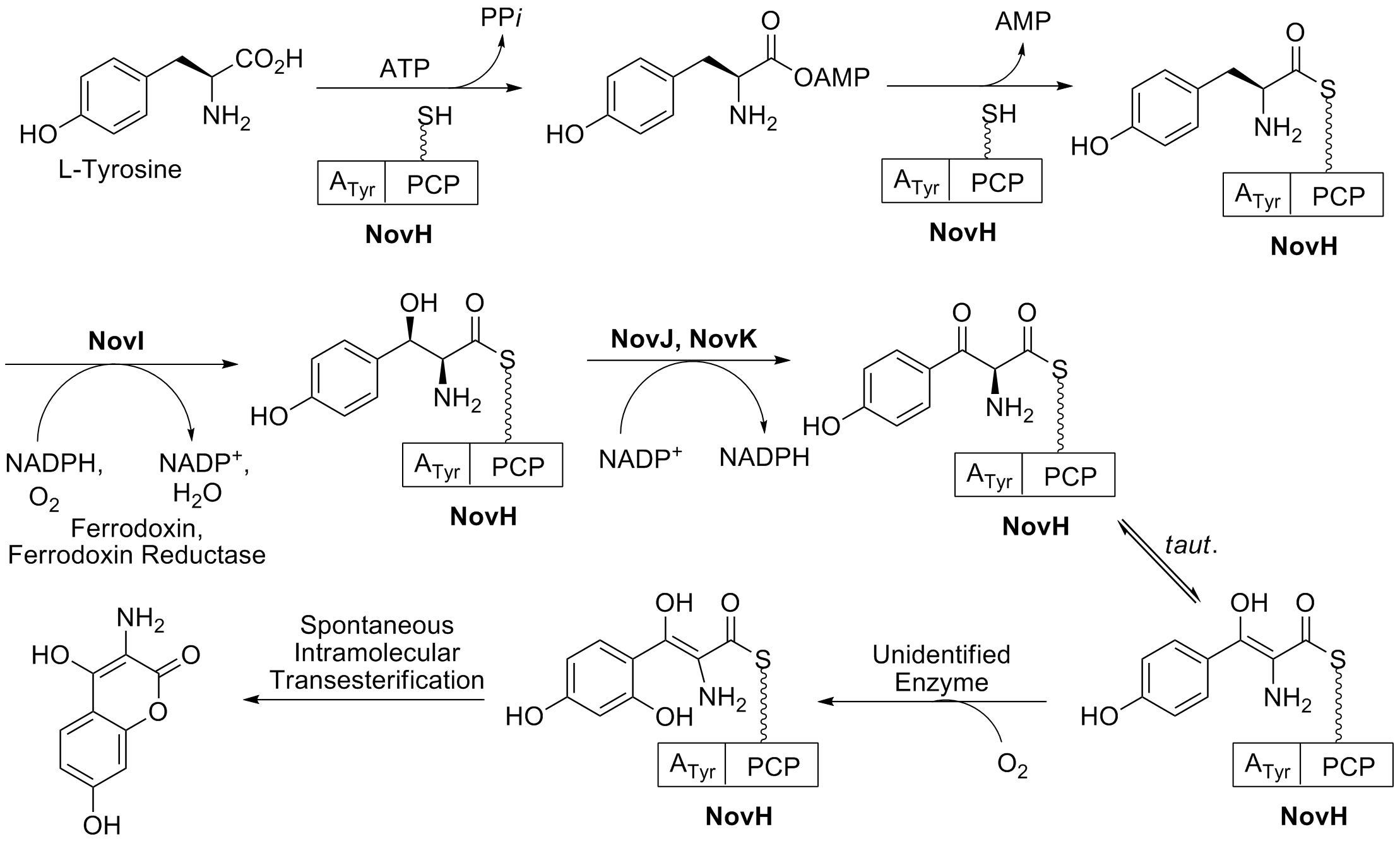 Novobiocin Ring B Synthesis